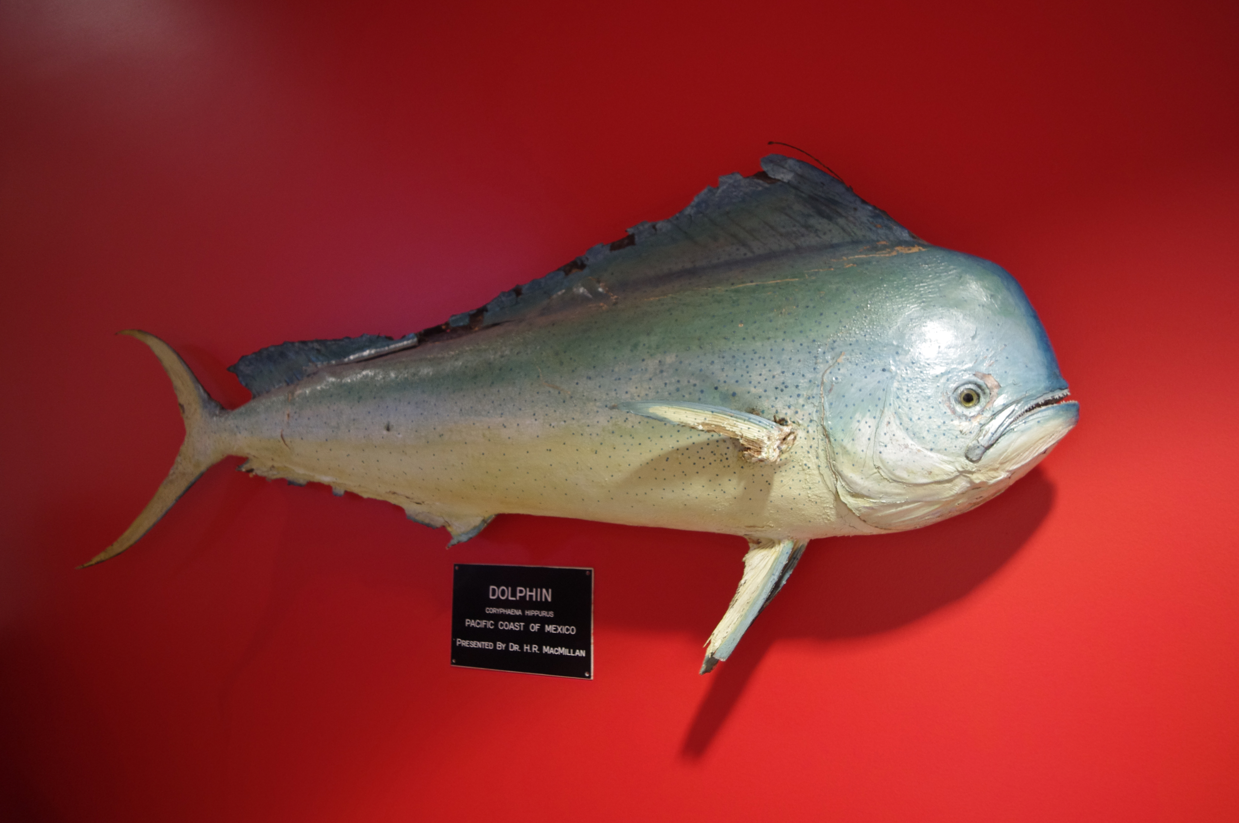 Coryphaena hippurus from the Pacific Coast of Mexico, presented by H.R. MacMillan, in a laboratory at the Beaty Biodiversity Centre